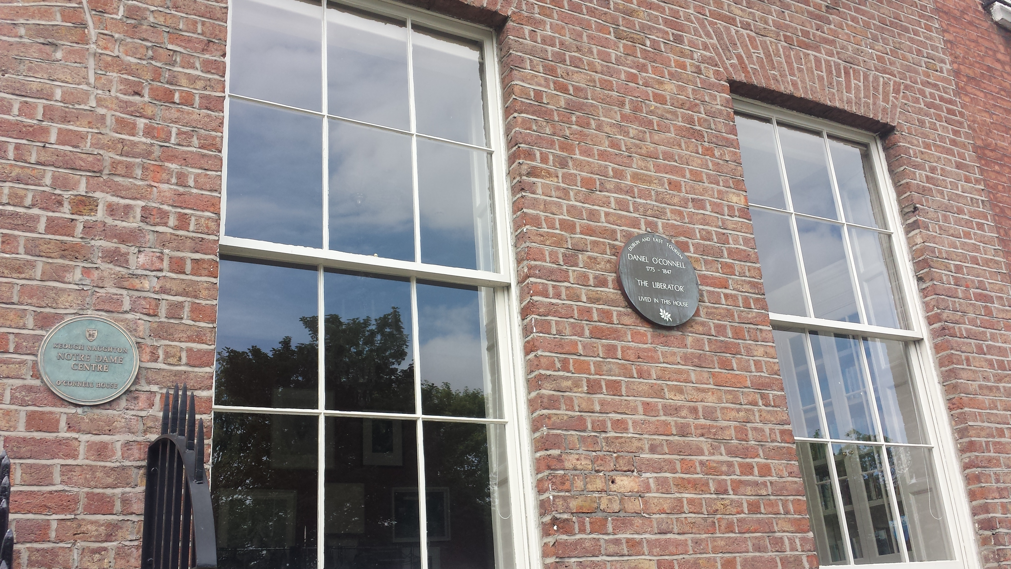 Daniel O'Connell 1775 'The Liberator' lived in this house